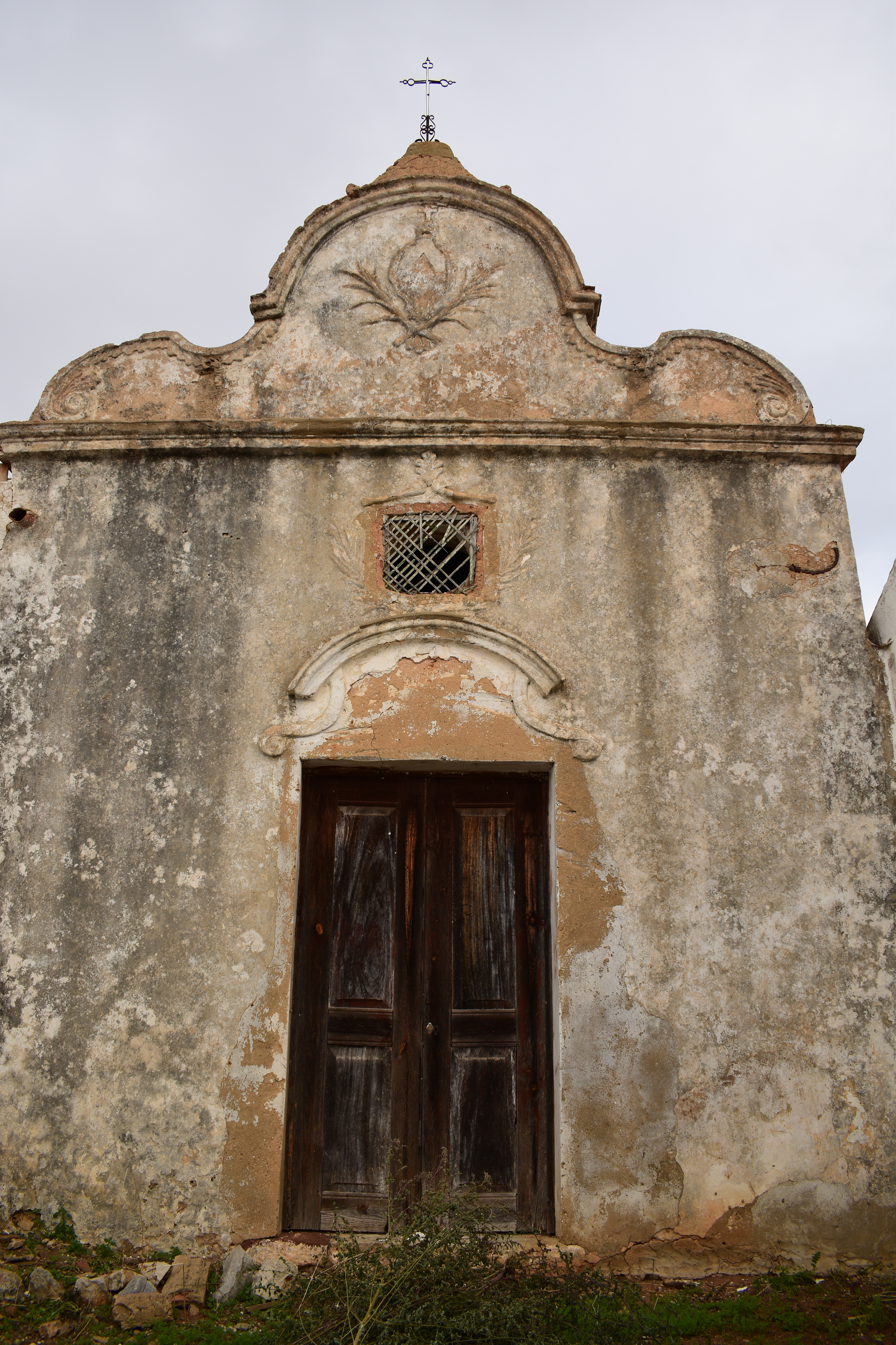 Chapel of Senhora dos Passos, in the town of Mexilhoeira Grande, in the region of the Algarve, in Portugal.